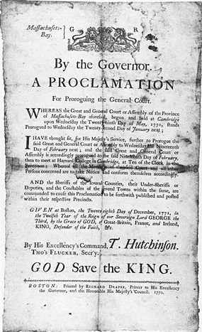 Proclamation by Governor Thomas Hutchinson of the Province of Massachusetts Bay, December 28, 1771.[1]